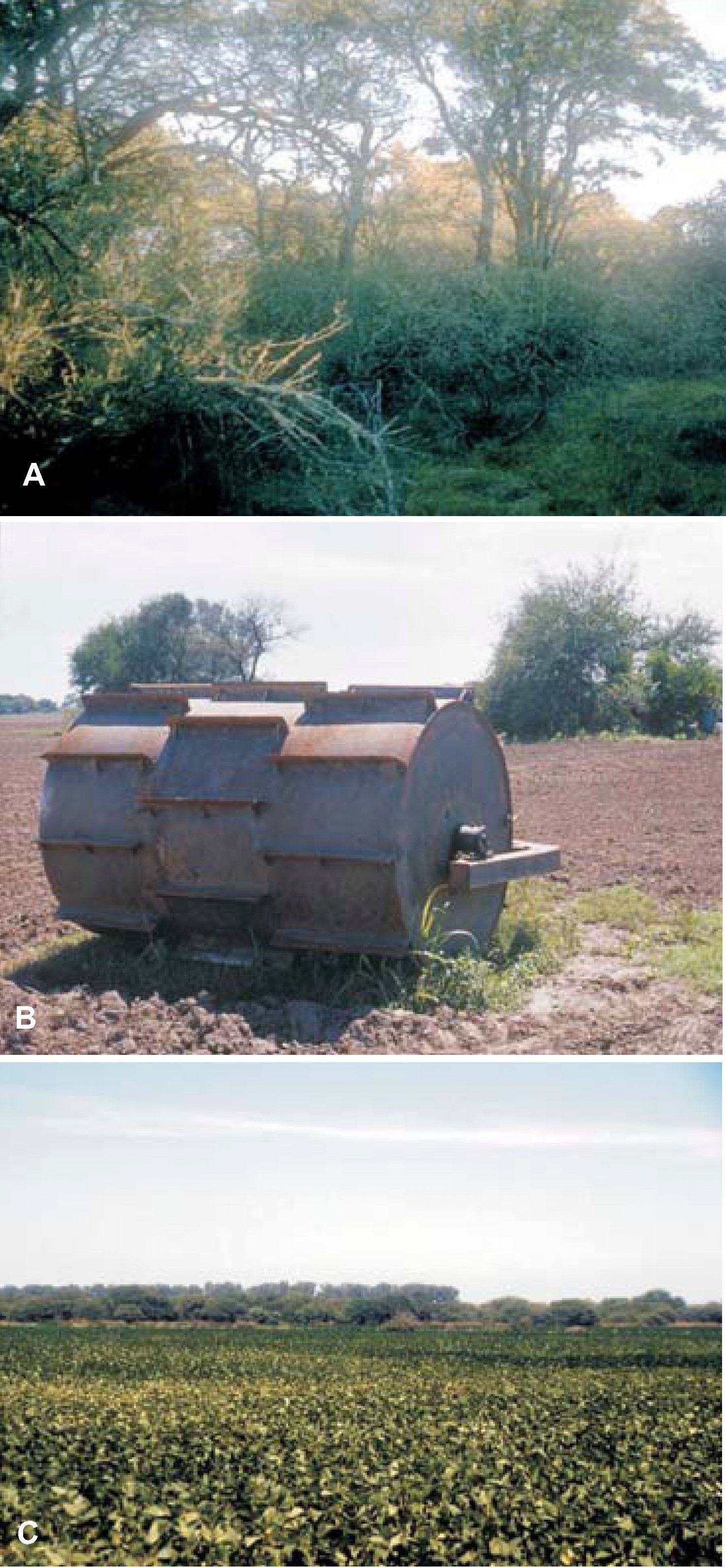 Lost Ecosystem Services and Vanishing Ecological Roles. Forest ecosystems in the tropics and subtropics are being quickly replaced by industrial crops and plantations. This provides large amounts of goods for national and international markets, but results in the loss of crucial ecosystem services mediated by ecological processes. In Argentina and Bolivia, the Chaco thorn forest (A) is being felled at a rate considered among the highest in the world (B), to give way to soybean cultivation (C).